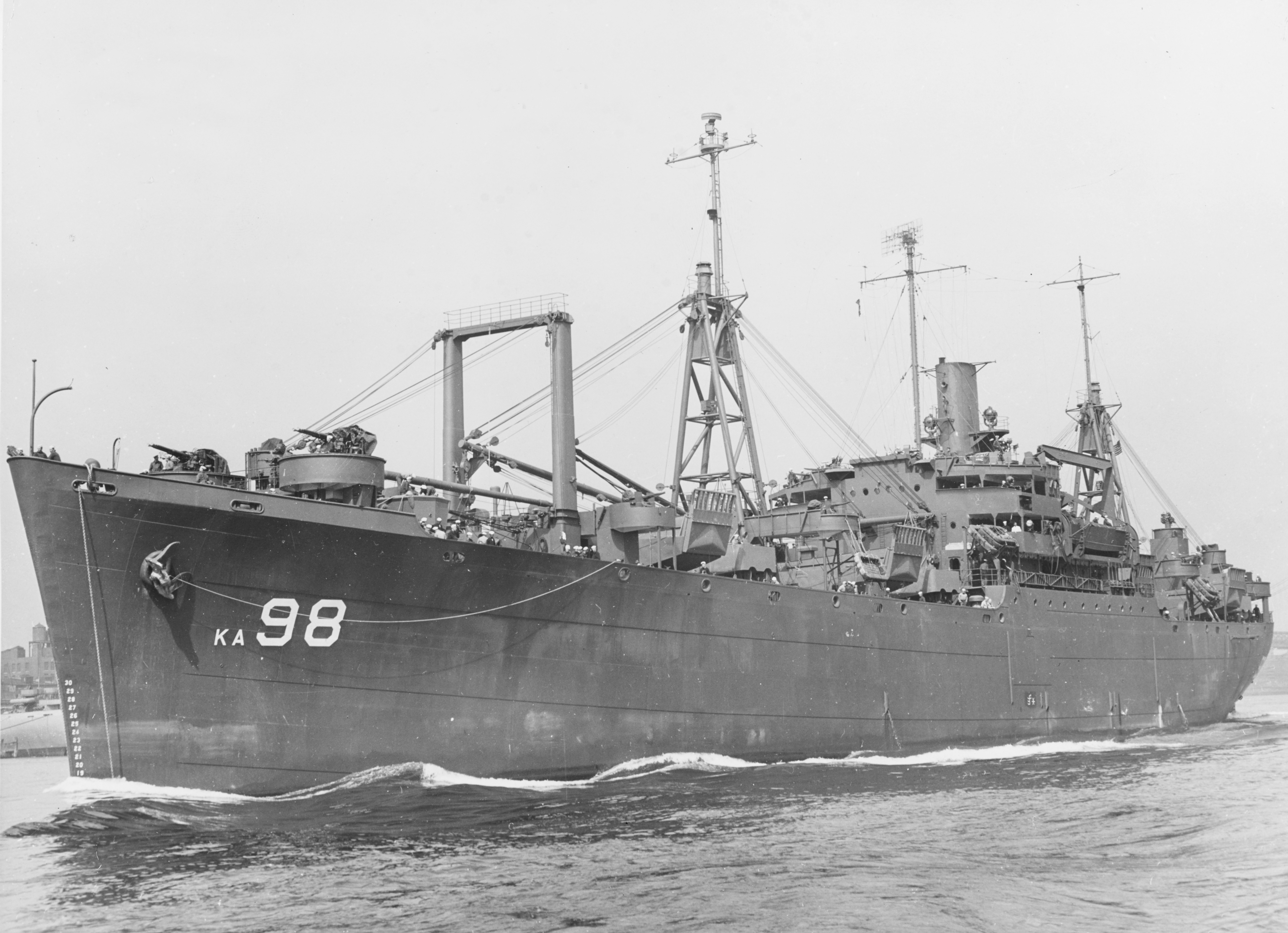 The U.S. Navy attack cargo ship USS Montague (AKA-98) underway off New York City (USA) on 23 April 1945.